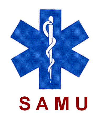 International Logo of SAMU